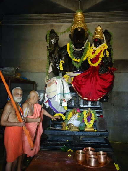 Srimad Andavan and Sri Parakala Jeeyar in front of Sri Laxmi Hayagriva of Parakala Mutt